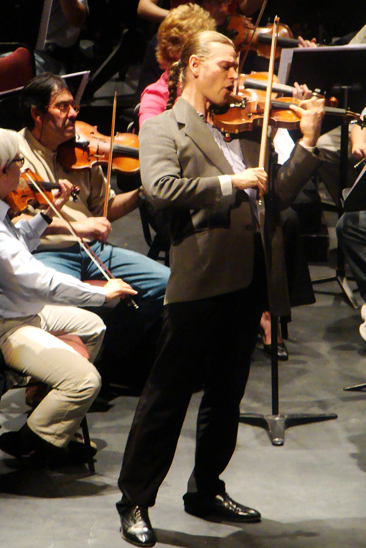 general rehearsal of Gala Concerto "Maestro"